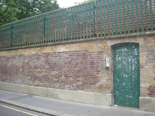 Freddie Mercury's house, Logan Place, W8 This was Freddie Mercury's house when he died in 1991, Logan Place. You can make out all the graffiti and etchings on the door.